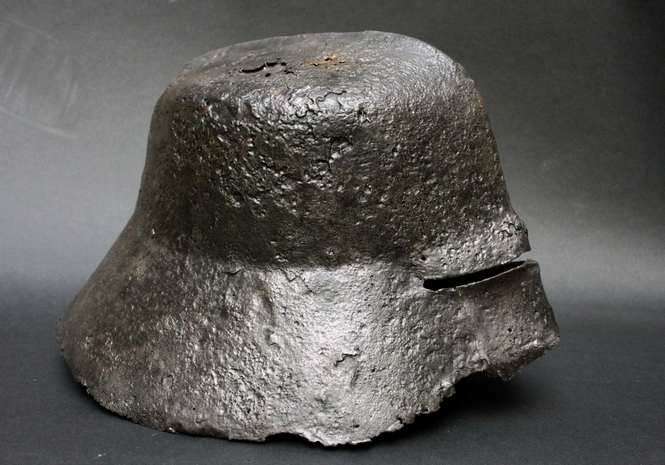 A knights helmet from the 15th century exhibited in the Museum in Smederevo; Smederevo Fortress